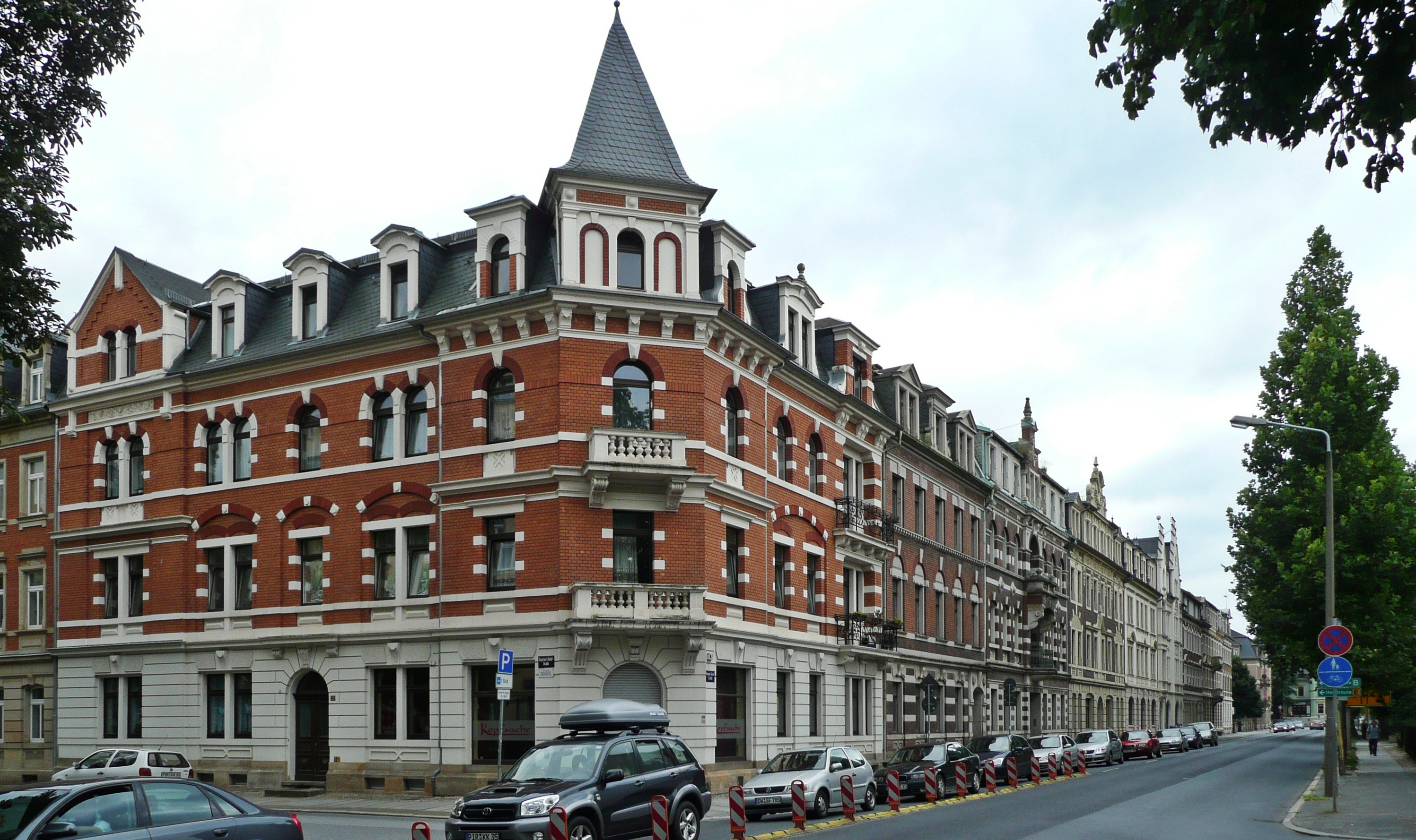 Pirna: Maxim-Gorki-Strasse with houses from the Gründerzeit.